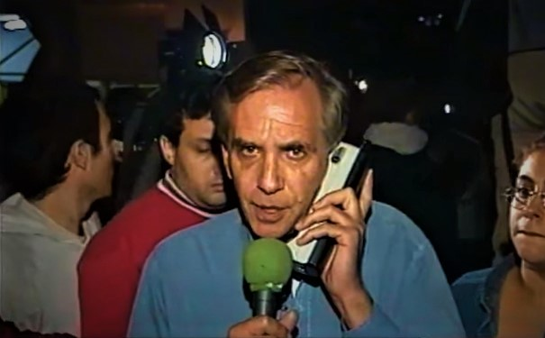 Channel2 - Yitzhak Rabin